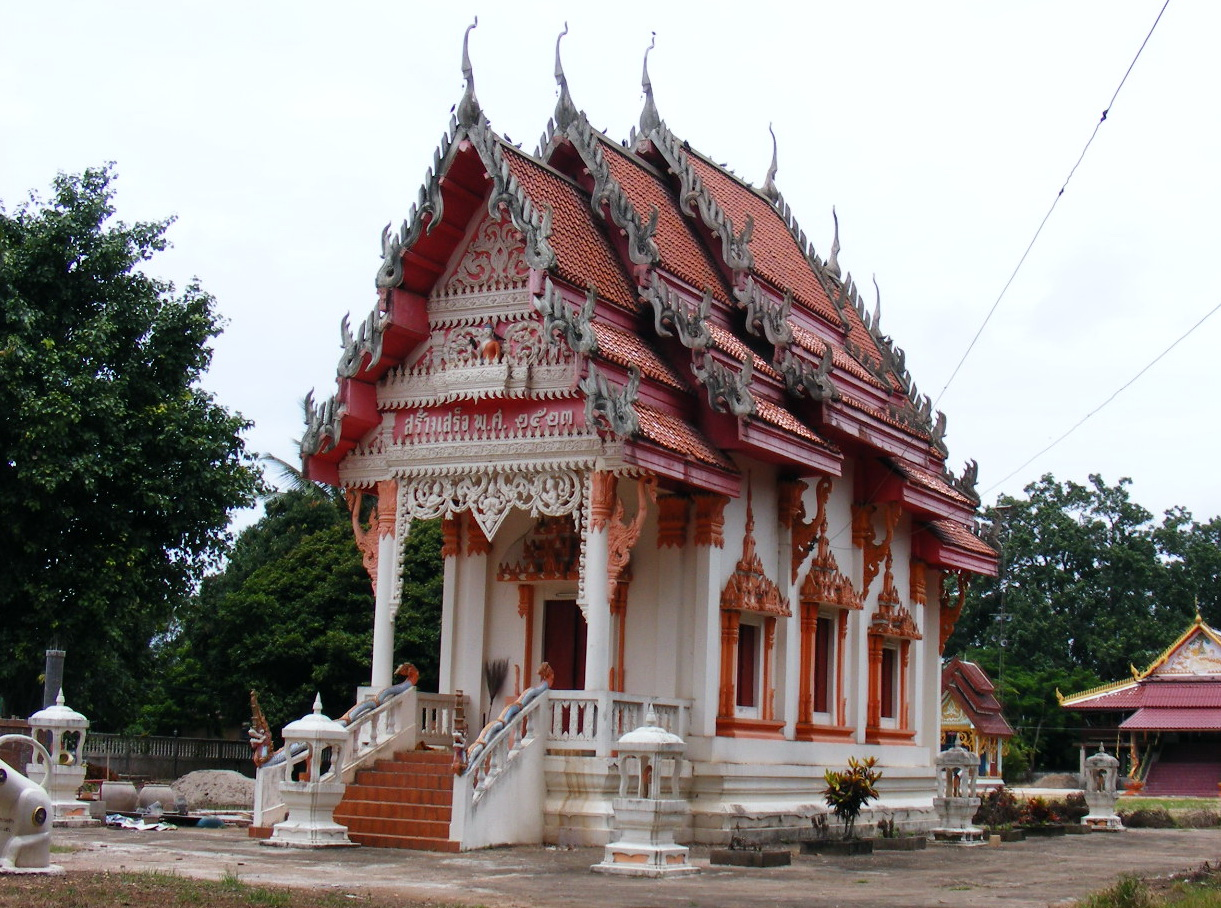 Wat Hua Hat Location: Wat Hua Hat Ban Hua Hat, Khung Taphao subdistrict, Mueang Uttaradit, Uttaradit Province, Thailand.